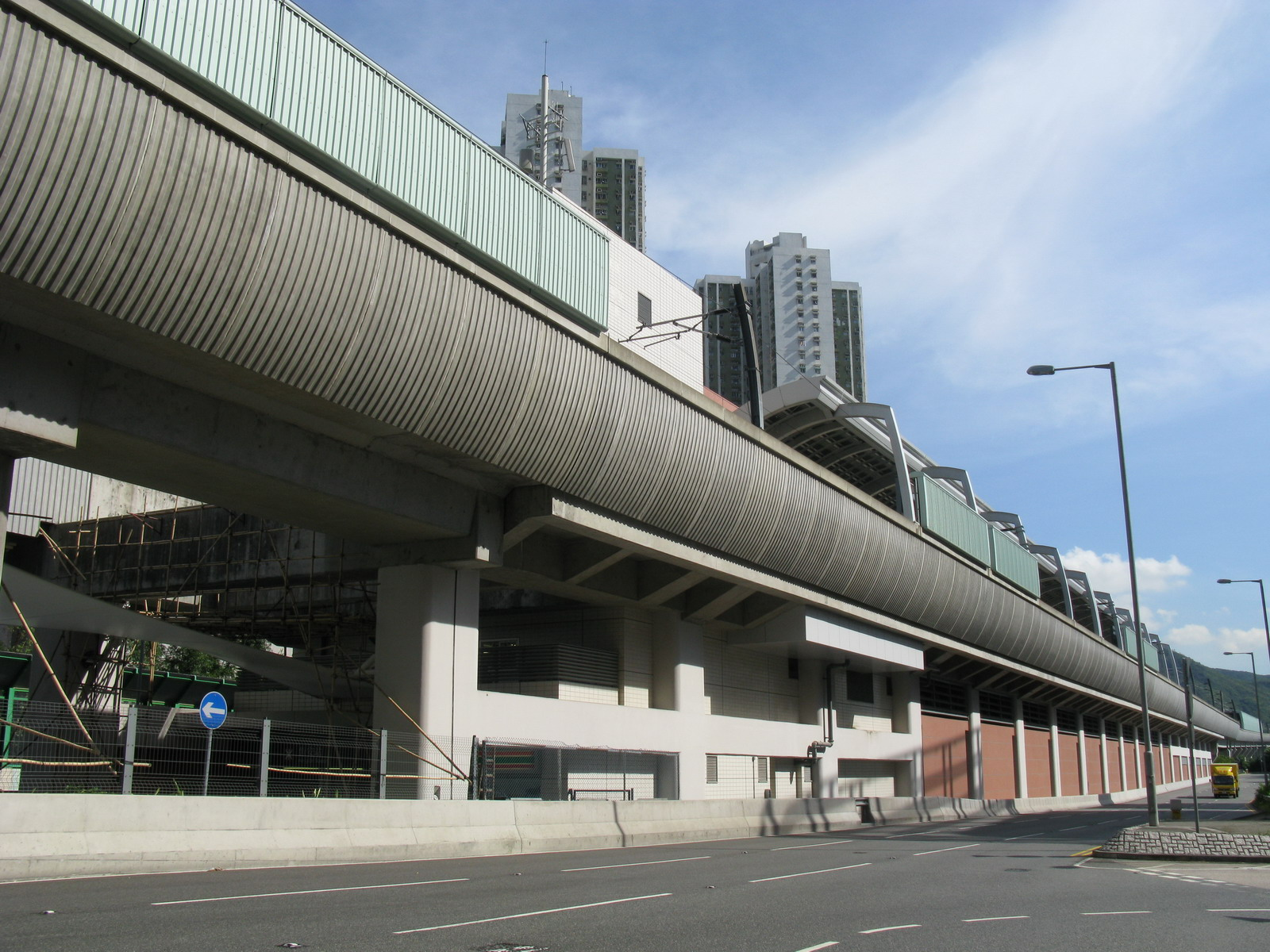 Heng On Station